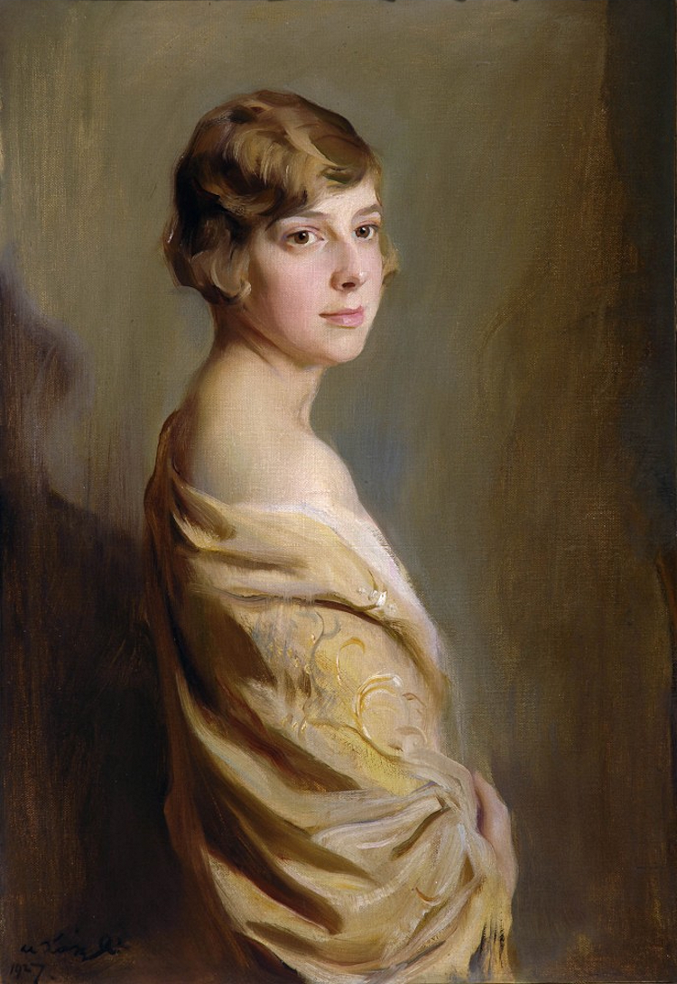 The Infanta doña Beatriz de Borbón y Battenberg (1909-2002); daughter of Alfonso XIII